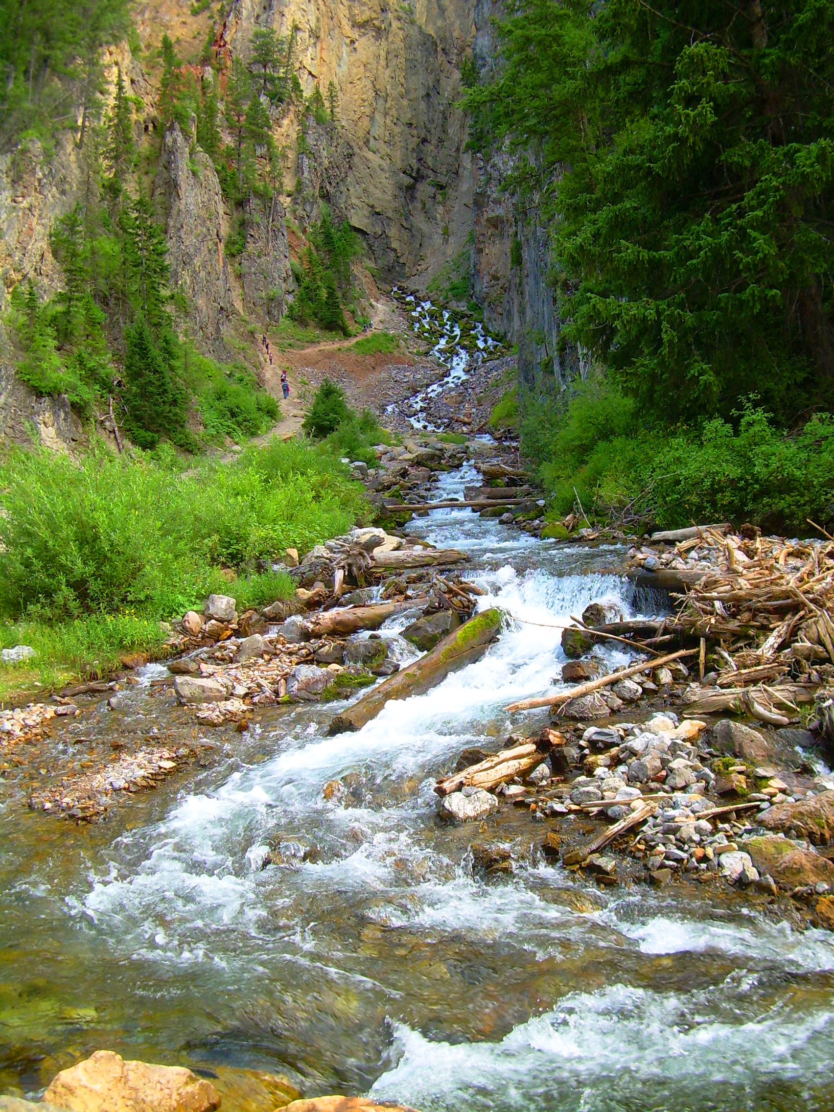 A photograph of Swift Creek as it tumbles out of the Periodic Spring, near Afton, Wyoming, as seen from the bottom.